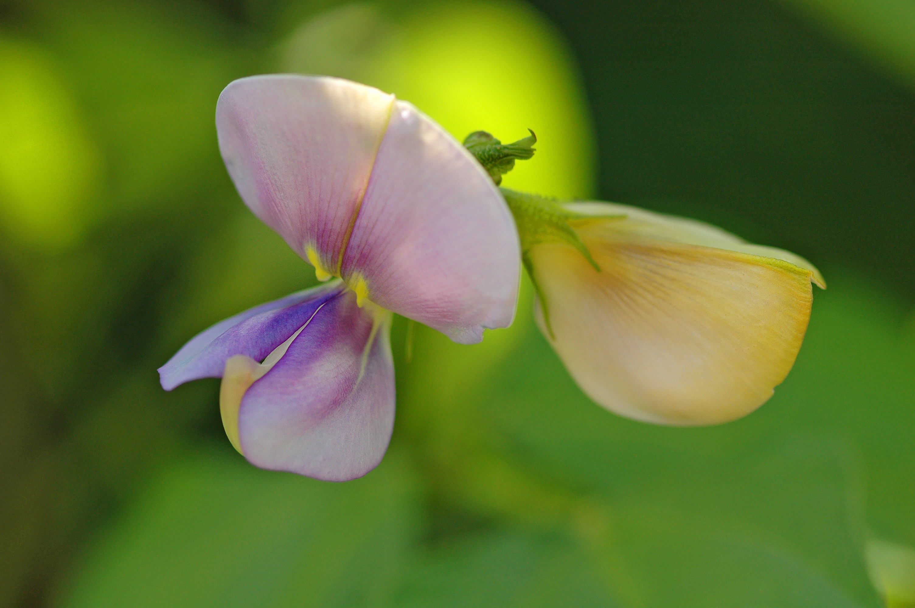 Flower of Yard Long Bean